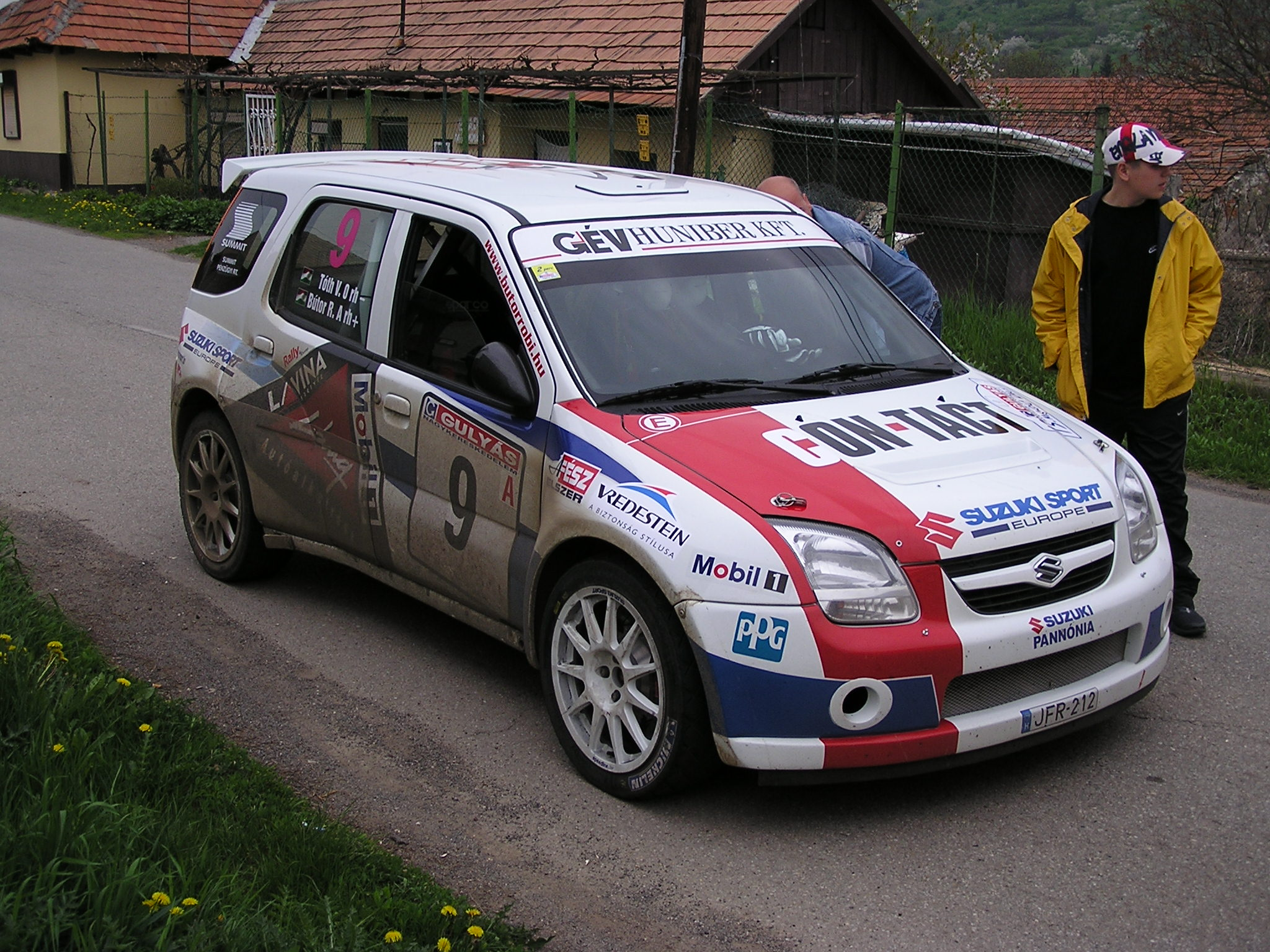 2006 Miskolc Rally (Hungary) Bútor Róbert - Suzuki Ignis S1600